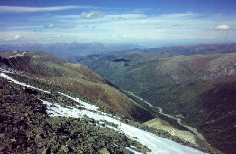 Akkem River valley from below Kara-Tyurek Pass